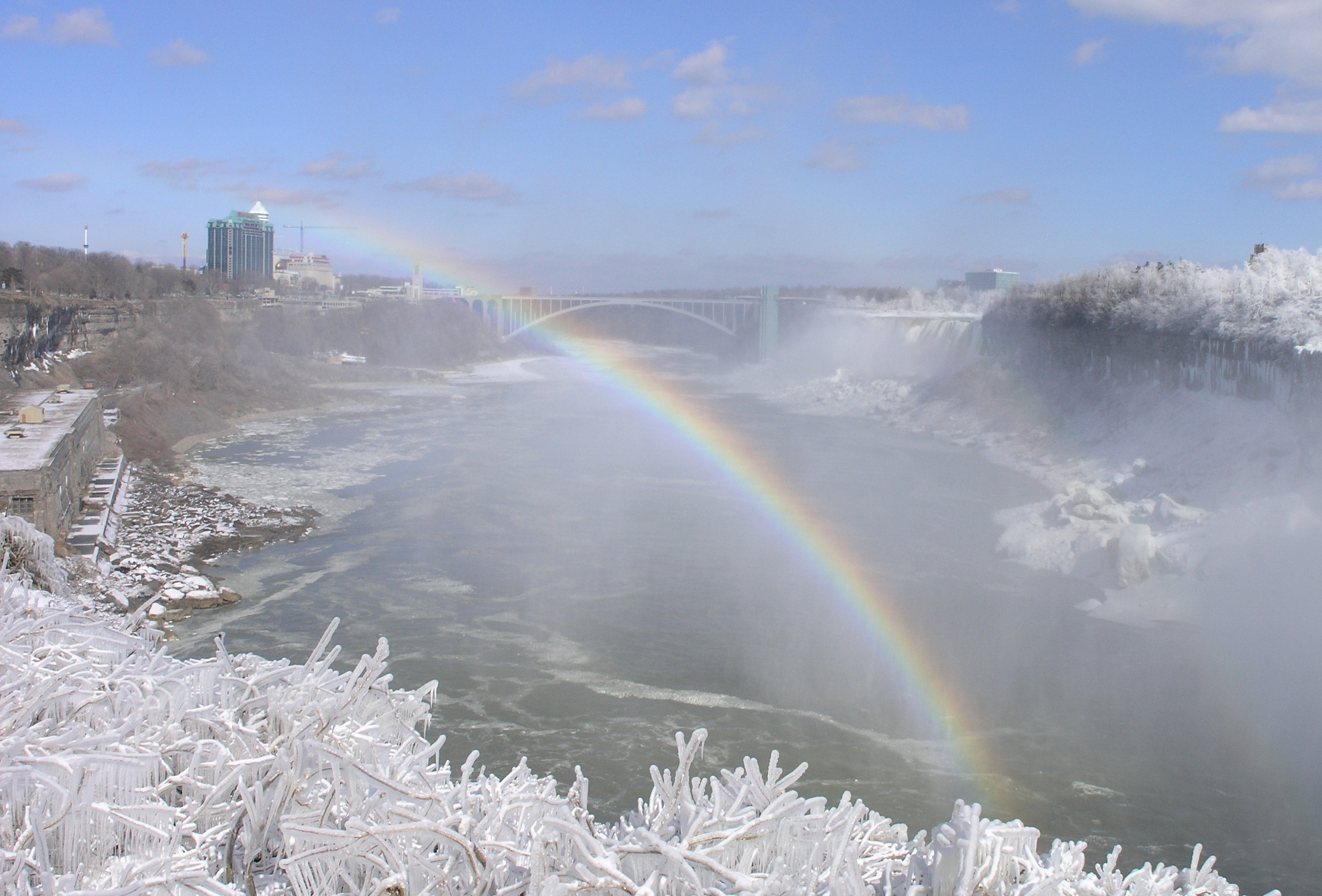 Taken by Daniel Mayer in late February 2006.